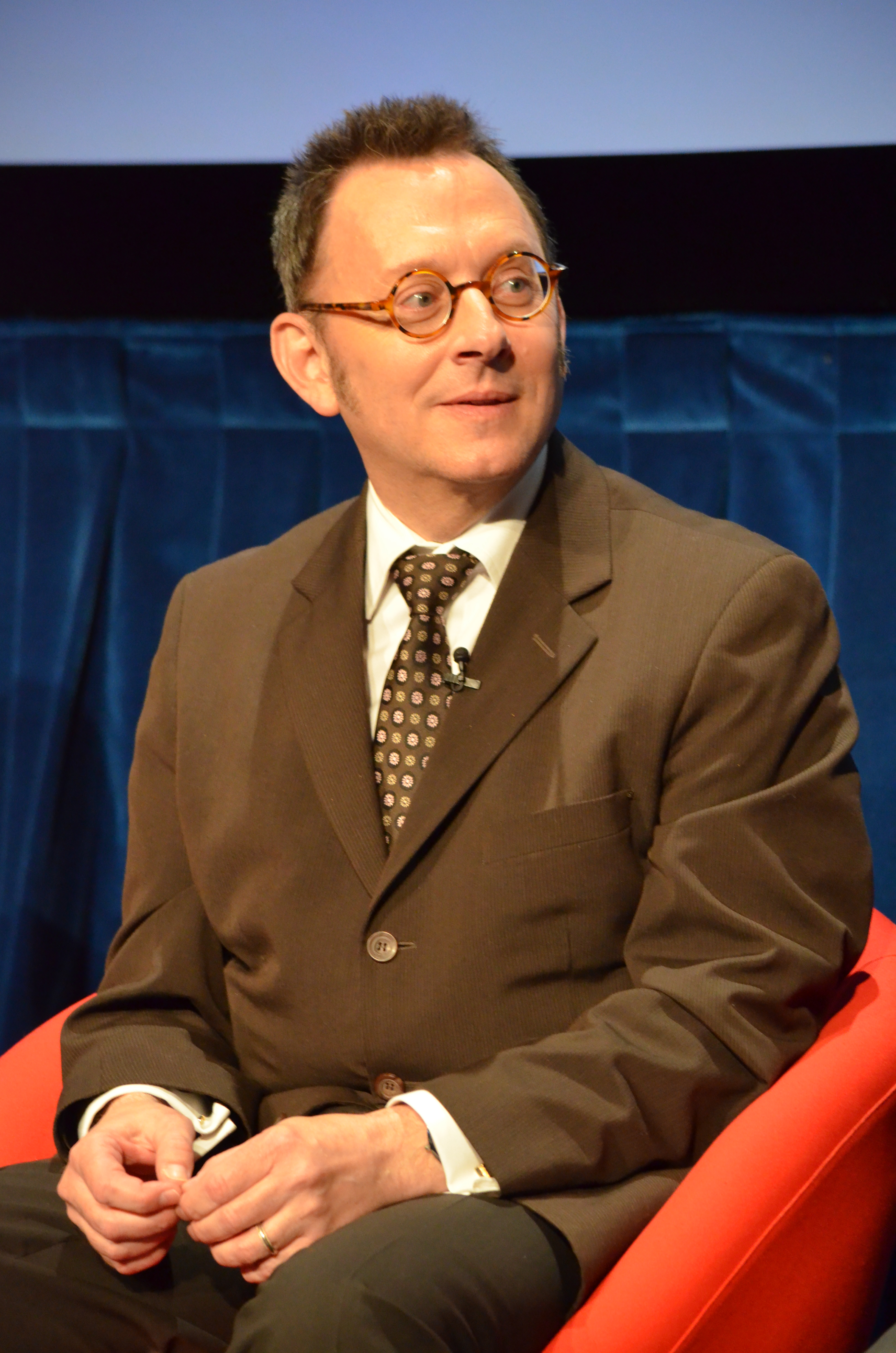 Michael Emerson